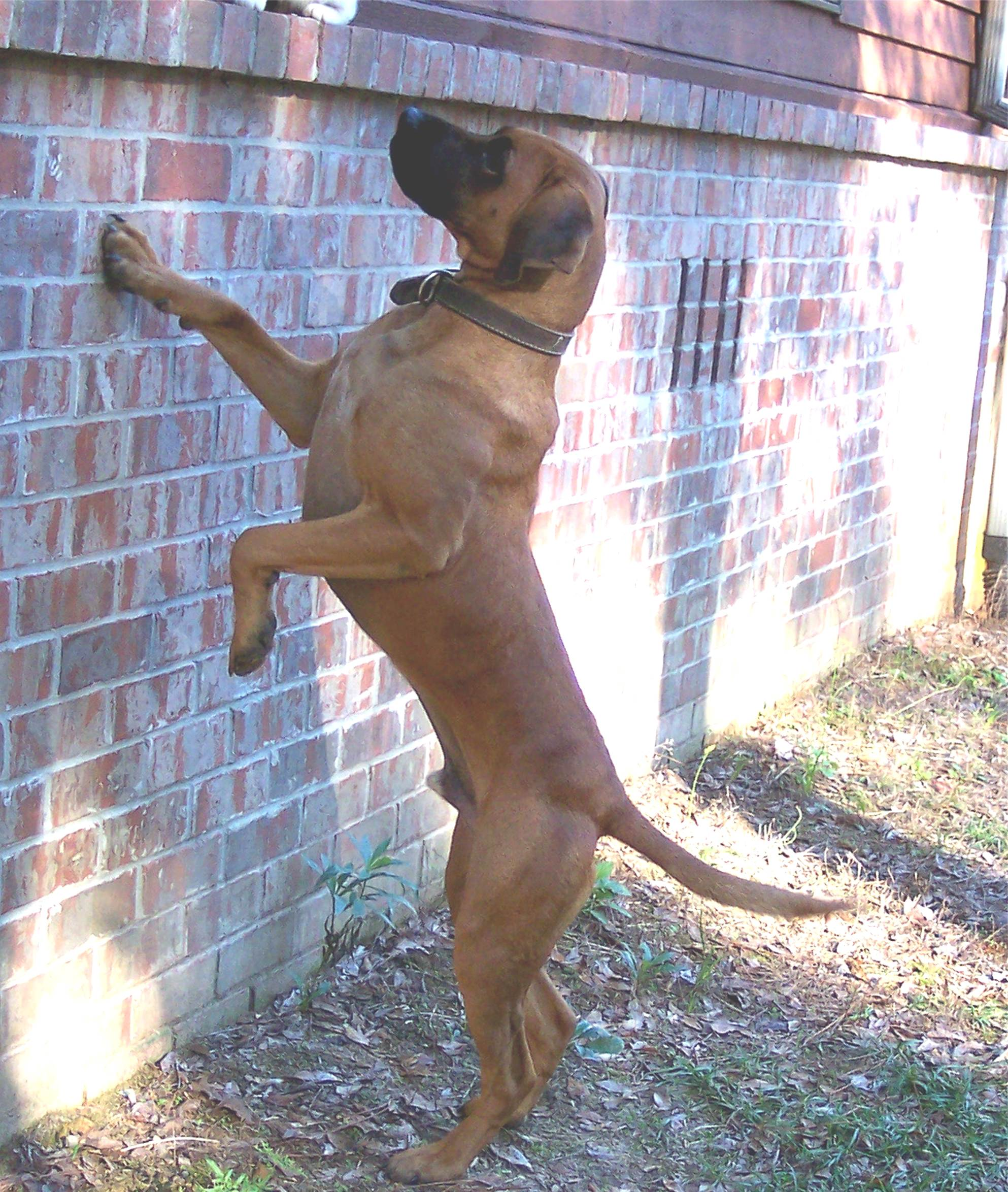 Mrs. Julie Murphy, Red Alabama Blackmouth Cur, Tracker, leaning against the house.